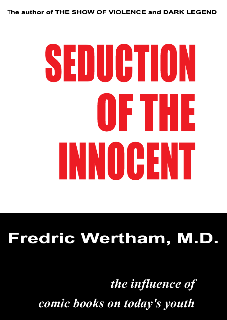 Reconstructed cover of Seduction of the Innocent by Fredric Wertham, M.D. This picture fails to meet the threshold of originality, as it contains only text and geometric shapes.